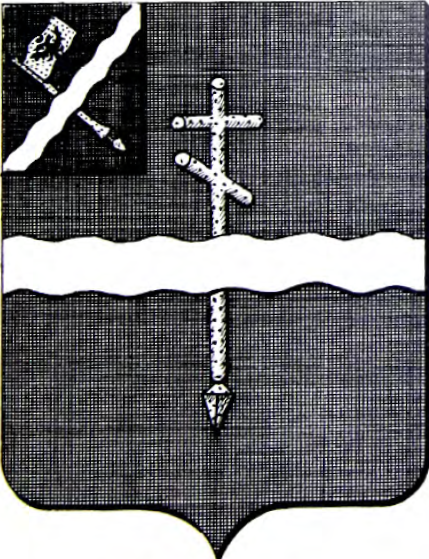 Coat of Arms of Georgievsk, proposal, 1875